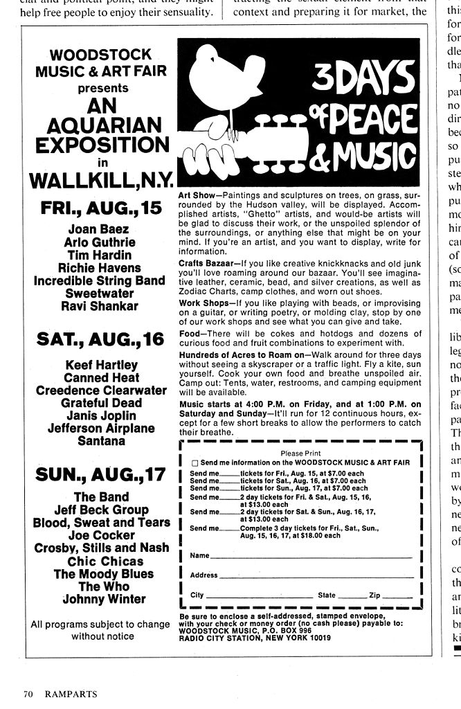 Magazine advertisement for Woodstock Music Festival in 1969. Headline bands include: Joan Baez, Keef Hartley, The Band, Chic Chicas and Jeff Beck Group